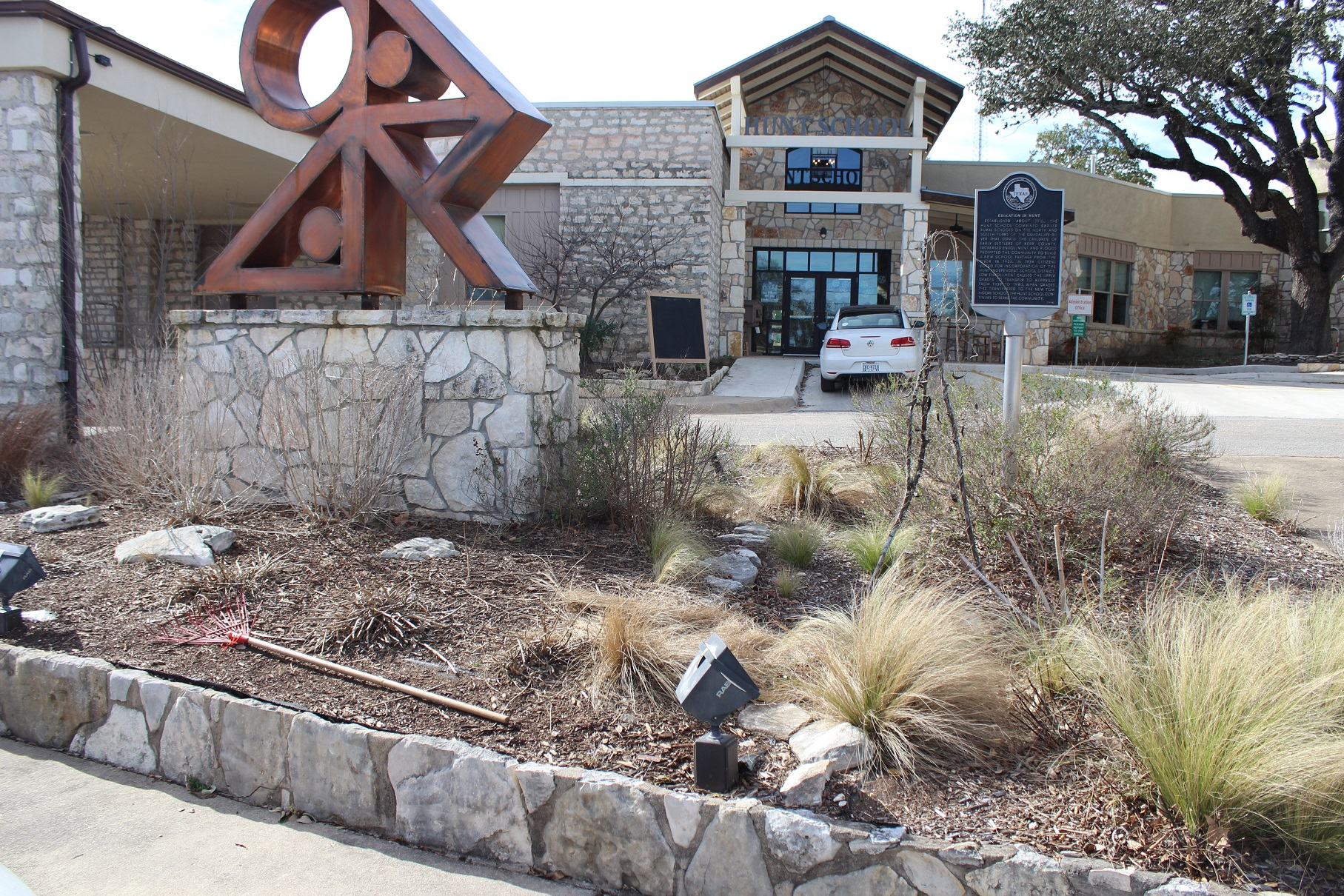 Education in Hunt. #15082